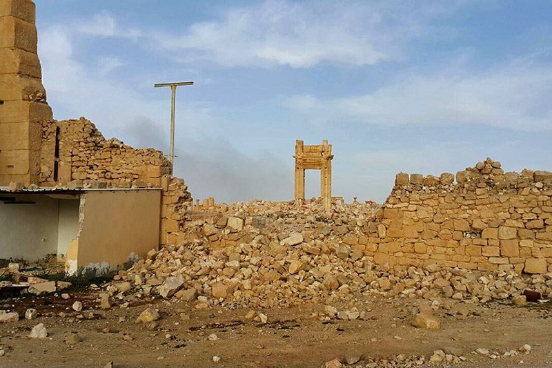 Palmyra after Islamic State's defeat by Russia–Syria–Iran–Iraq coalition and freedom.